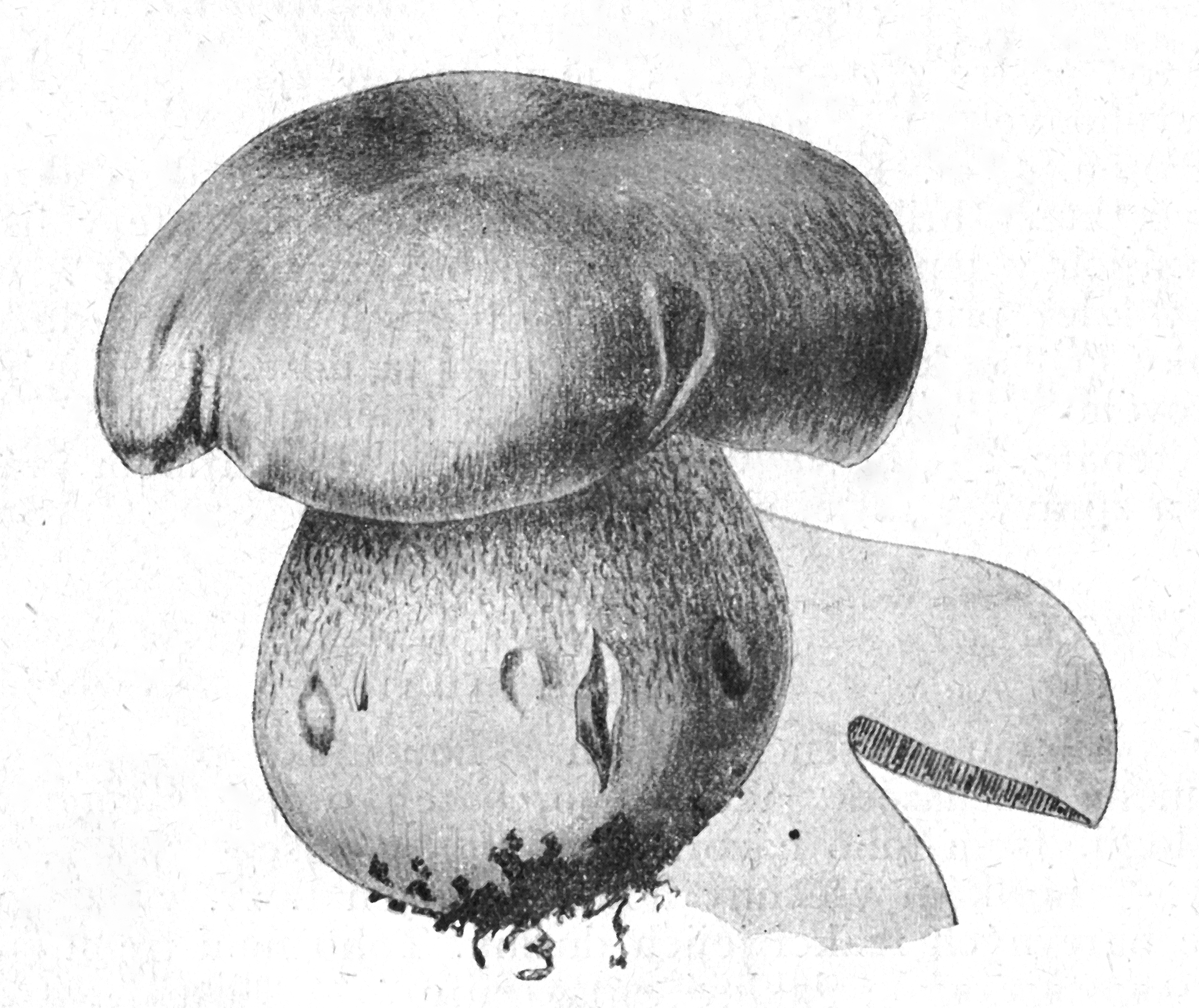 Boletus regius sensu Krombholz, ilustration by Jindřich Kučera (1867-1934, Czechoslovakia), enhanced contrast, removed raster